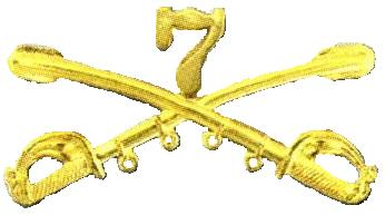 United States Crossed Cavalry Sabers, 7th Cavalry, paint shop modified from hand drawn color sketch with a number 7.